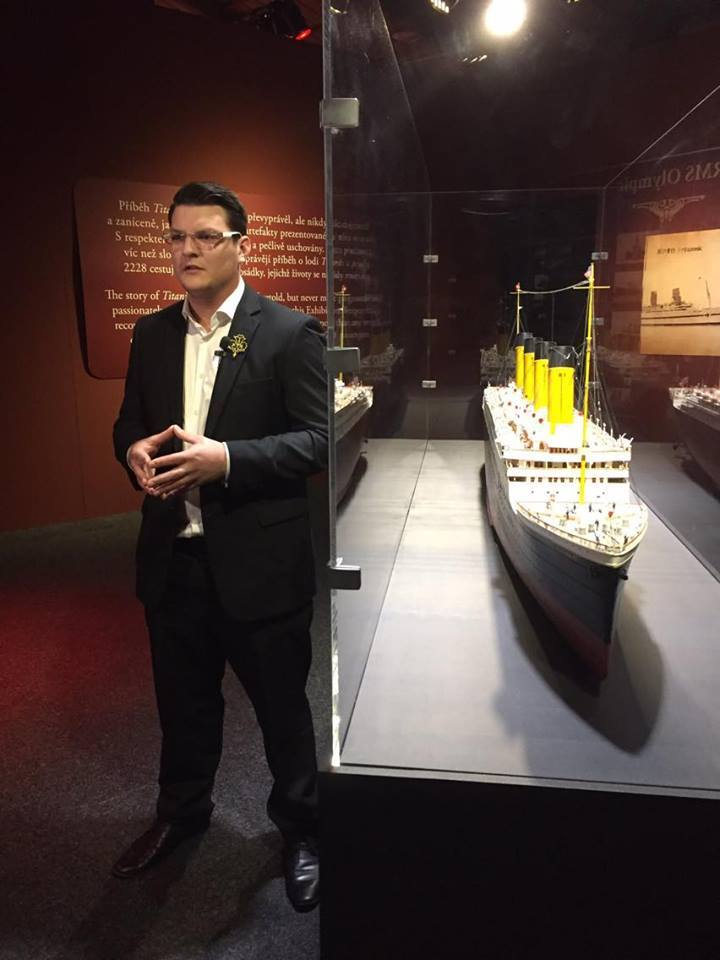 Ondřej Vrkoč at the international exhibition of artifacts from the wreck of the Titanic, held in Bratislava and Prague in year 2015 and 2016